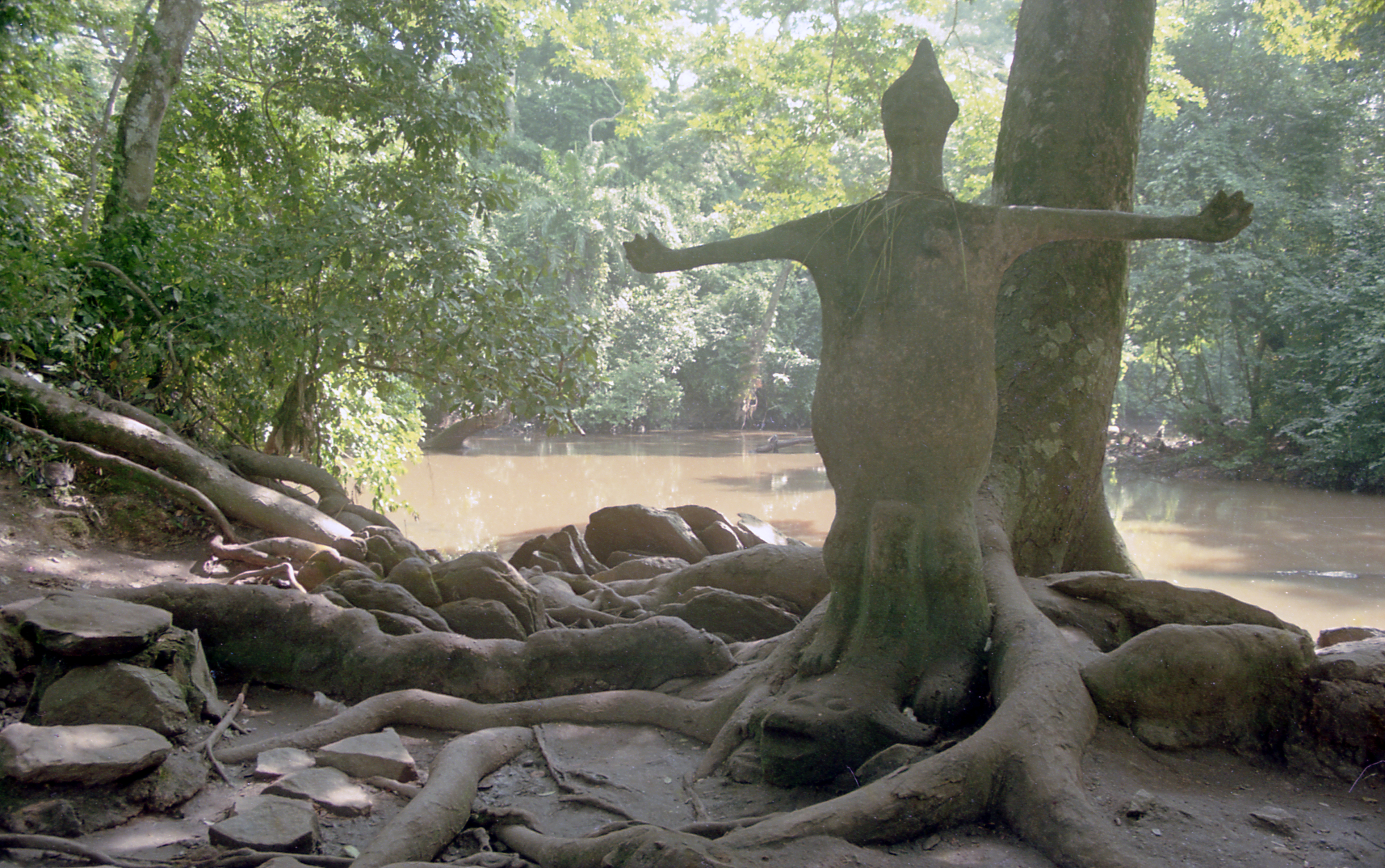 River-side Shrine and Sacred Grove Of Oshun